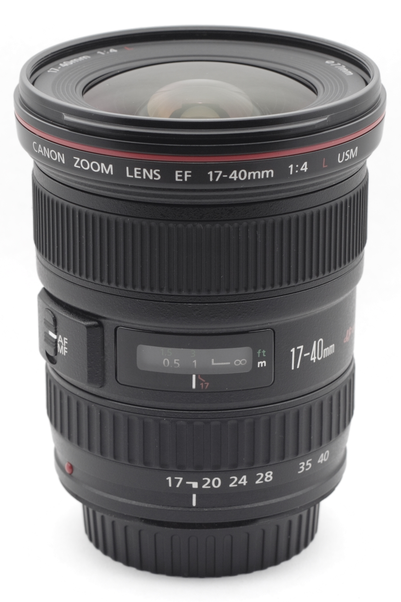 Side shot of the Canon EF 17-40mm f/4L USM